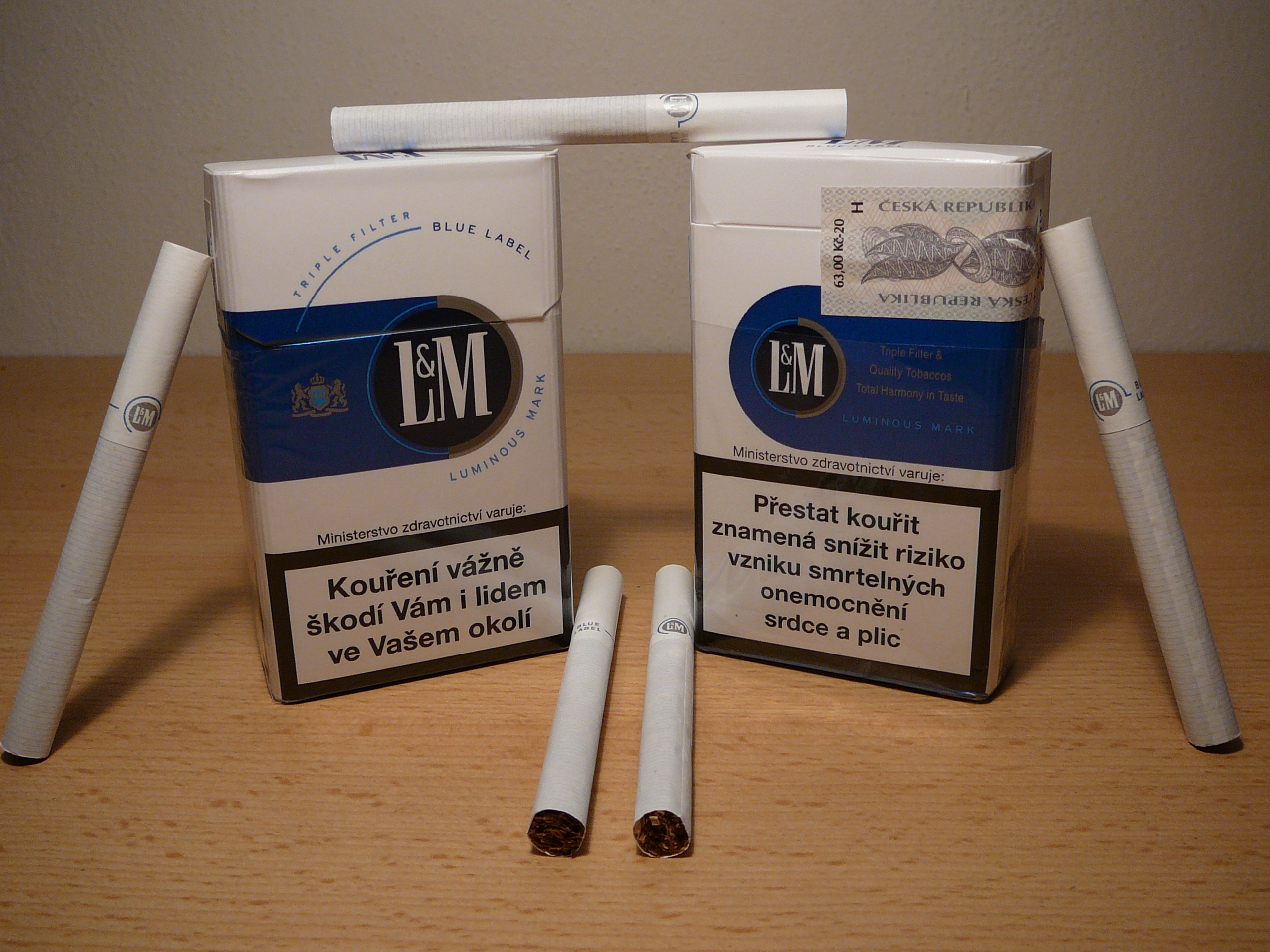 L&M Blue Label (light)